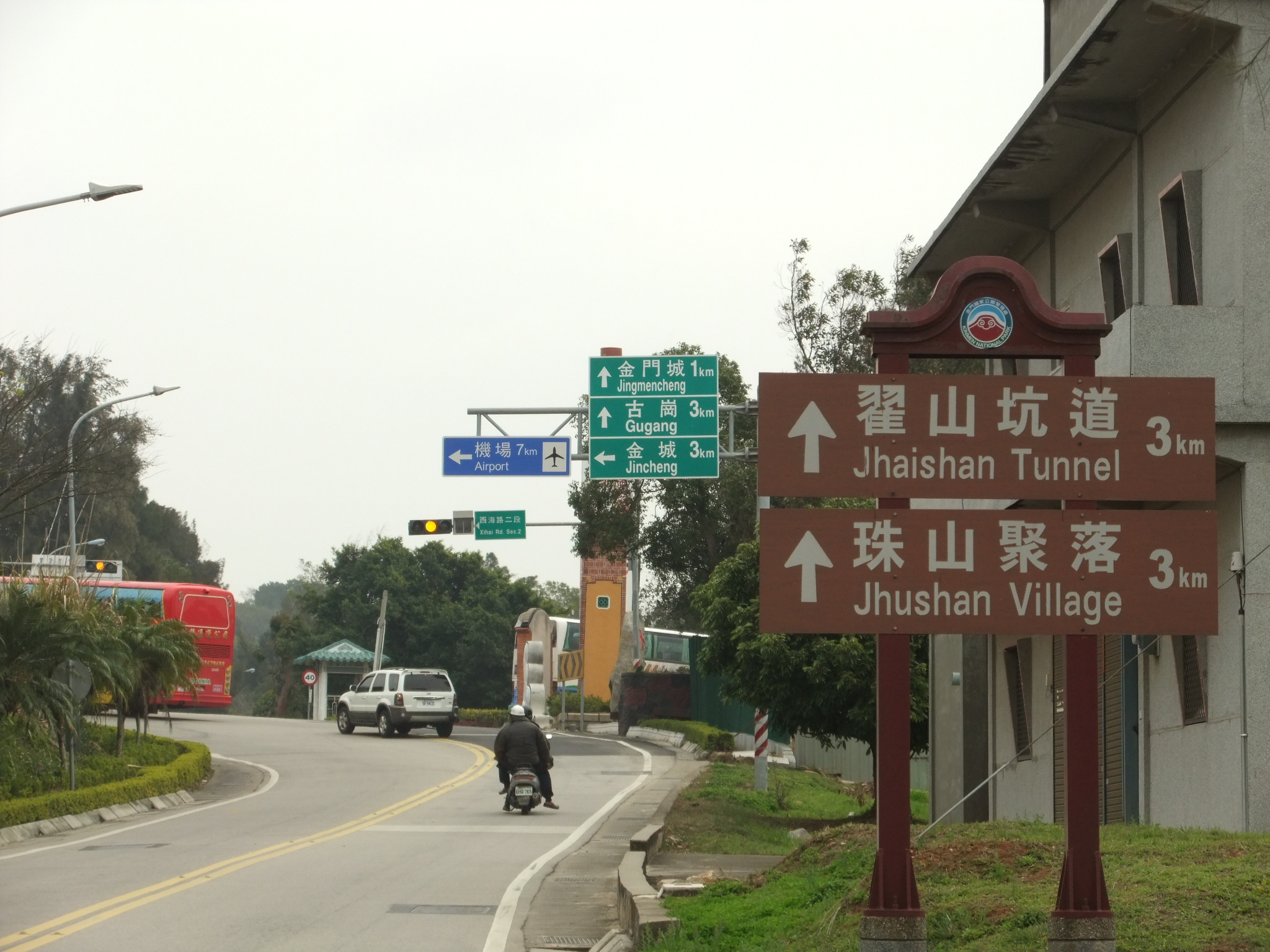 A roundabout on the road from Shuitou to Jincheng, Kinmen Island. Road signs use Tongyong Pinyin for place names.